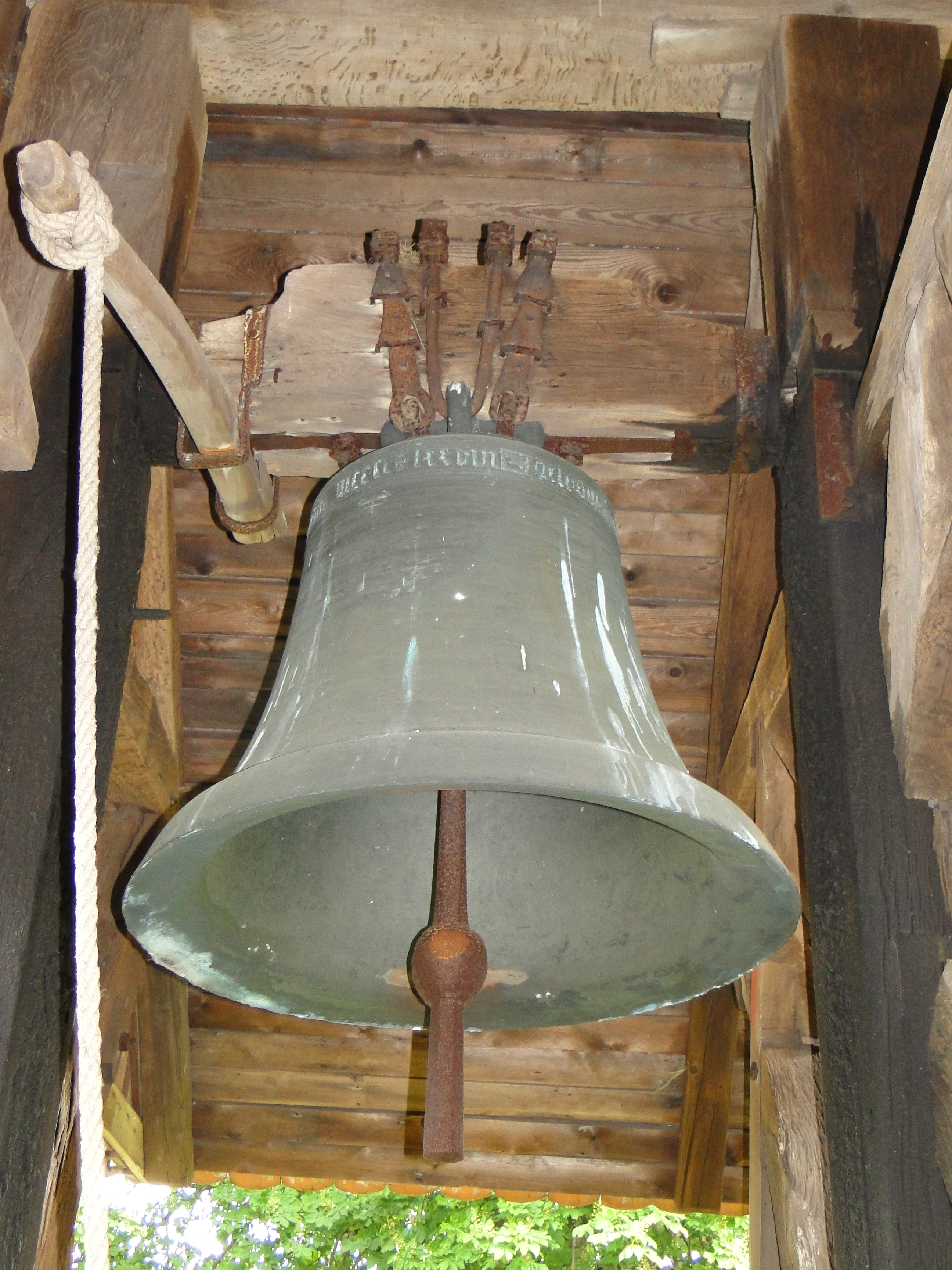 Church in Prestin, district Ludwigslust-Parchim, Mecklenburg-Vorpommern, Germany